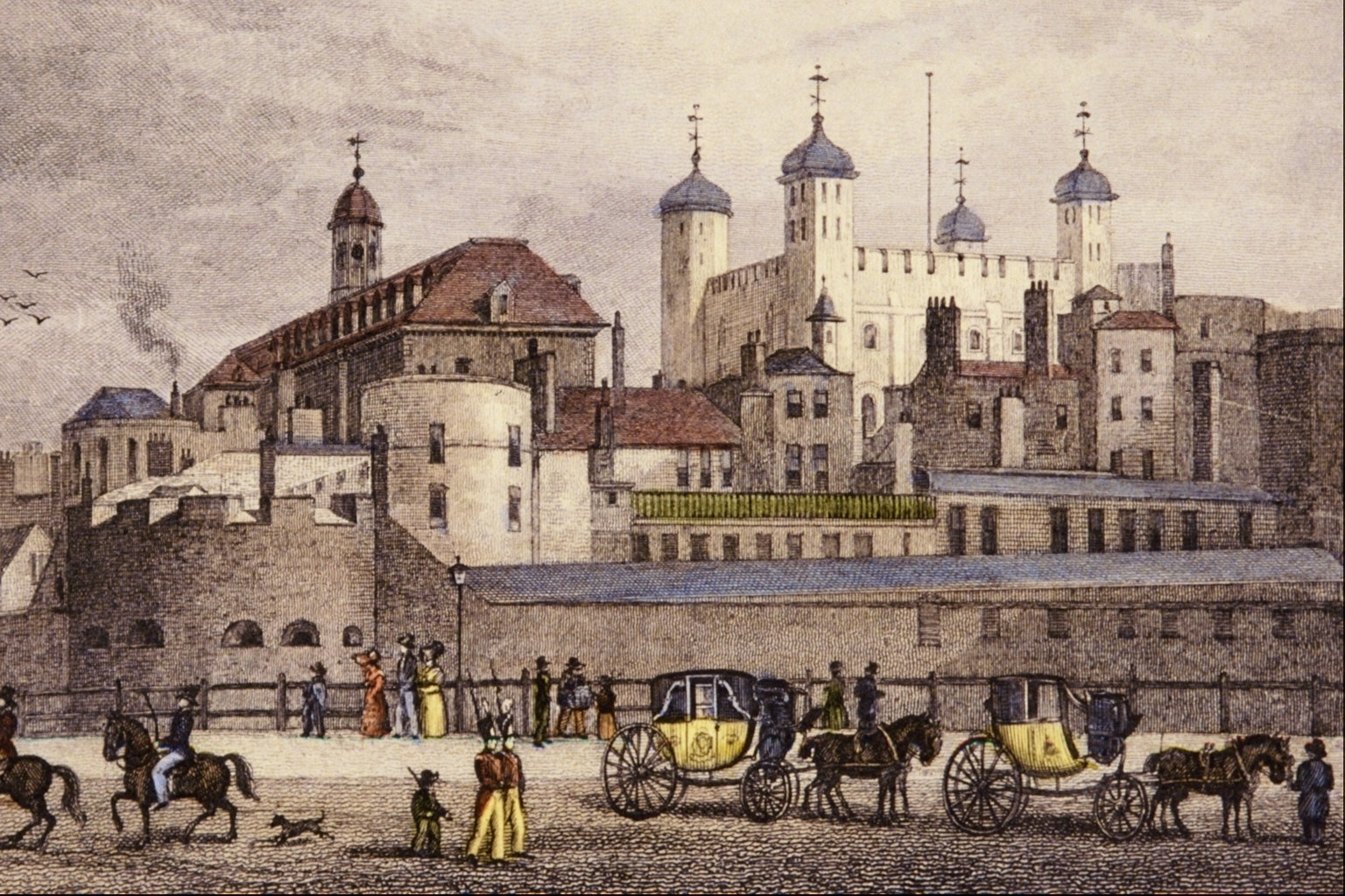 The Tower of London from Tower...